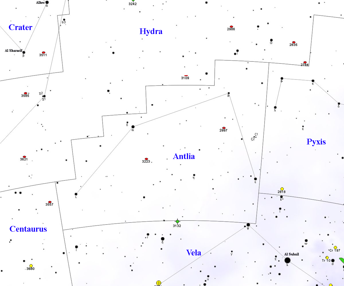 Antlia constellation map, with DSOs